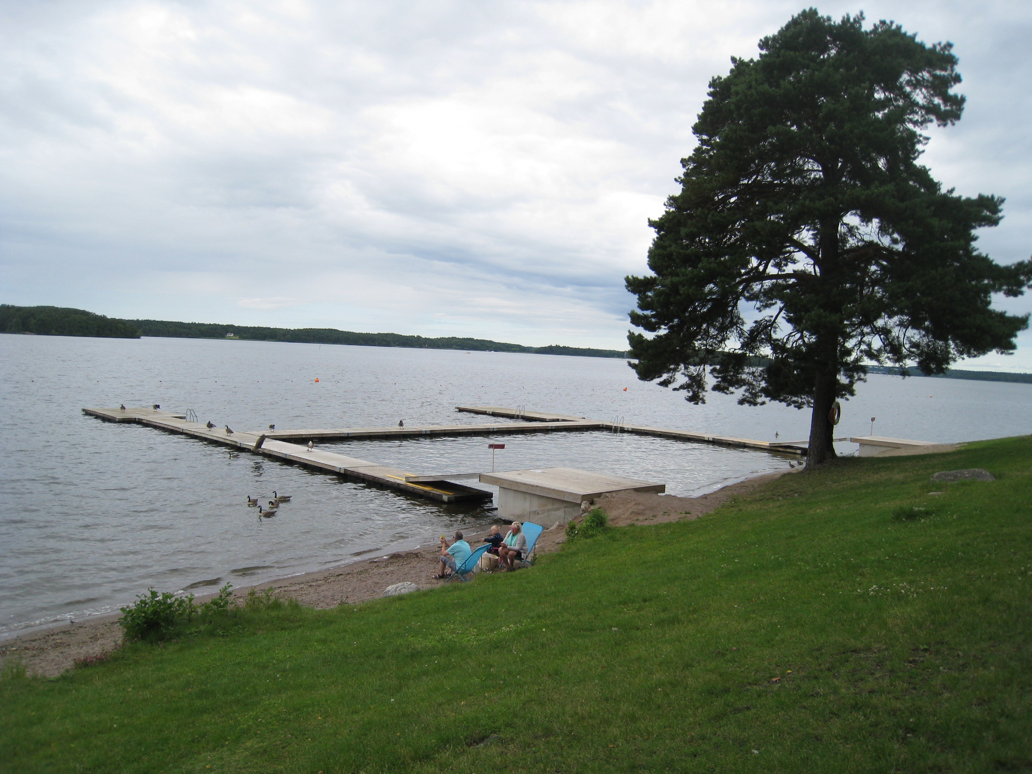 Görvälnsbadet, Järfälla Municipality in Stockholm County. The bridges.